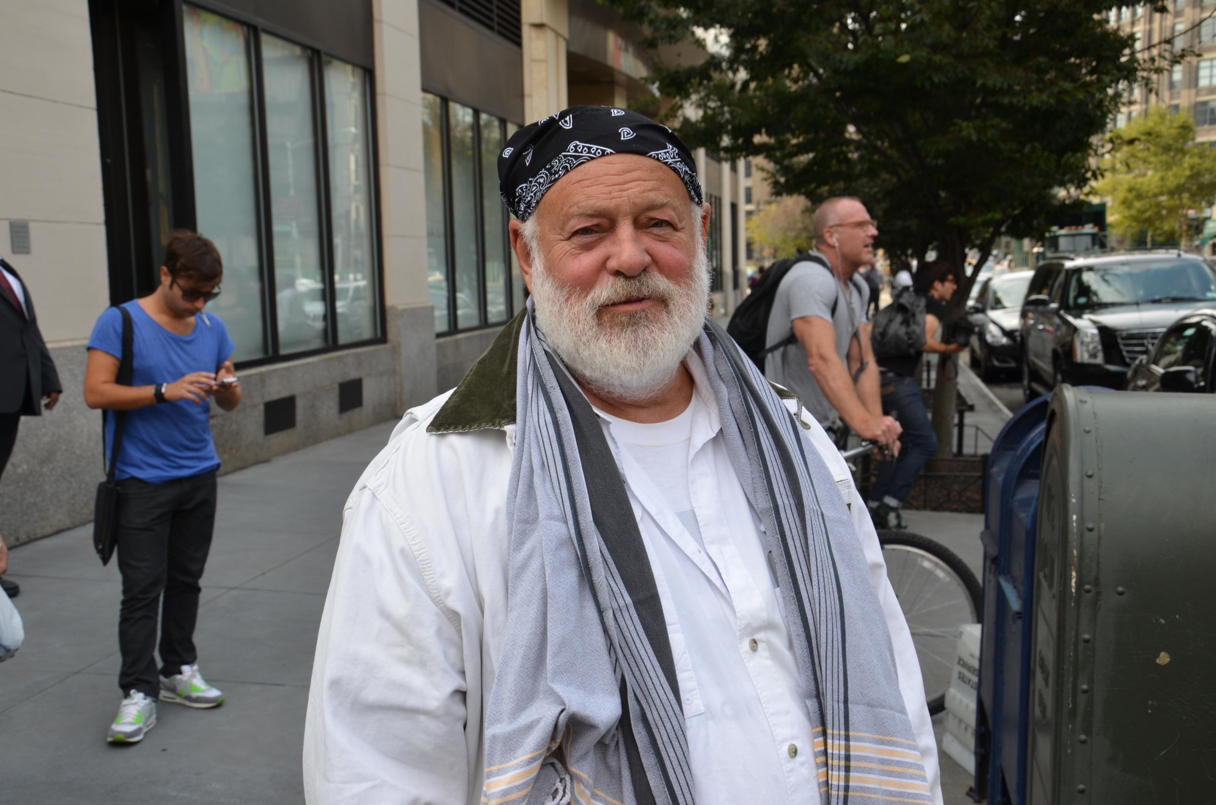 Photographer Bruce Weber